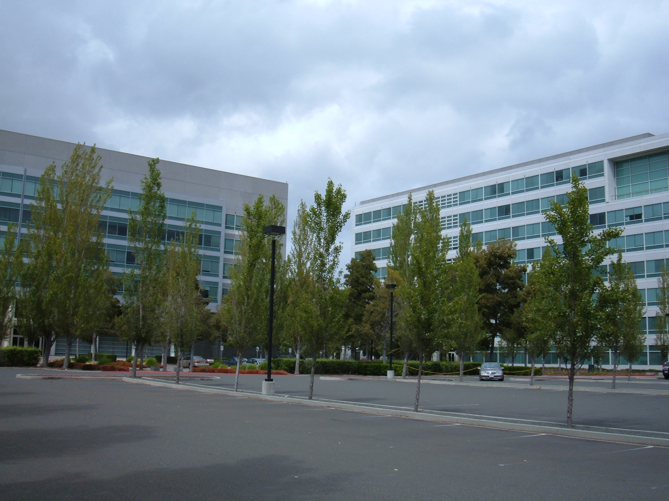 207 and 209 Redwood Shores Parkway at the Electronic Arts headquarters campus in Redwood City, California. 209 is the main headquarters building.